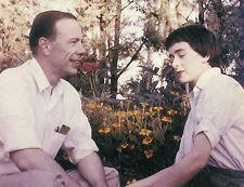 Mathematician Andrew Mattei Gleason with Jean (Berko) Gleason